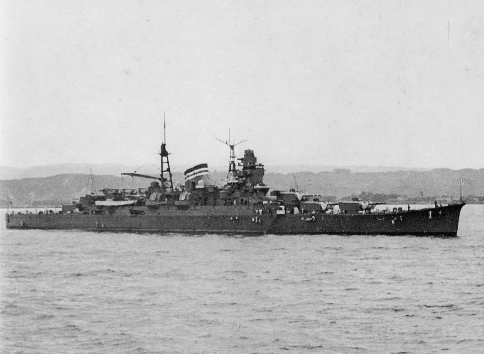 Japanese cruiser Mikuma anchored in Kagoshima Harbor and photographed from the submarine tender Tsurugizaki.